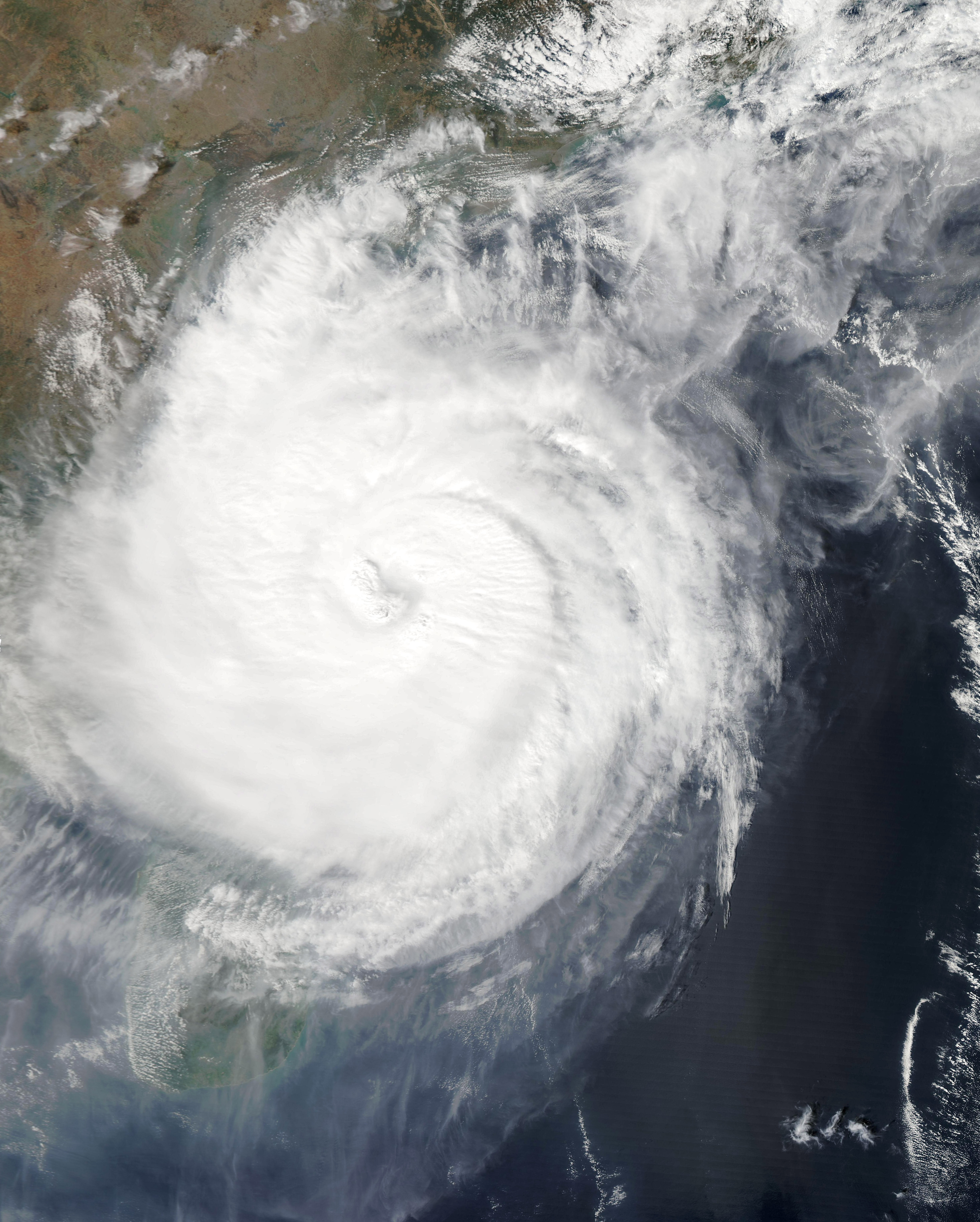 Cyclone Thane came ashore in southeastern India in late December 2011, killing at least 47 people, flattening homes, destroying crops, and leaving tens of thousands in need of emergency aid. Some aid workers feared that Thane may have caused more property and infrastructure damage in the region than the tsunami that struck in 2004. The Moderate Resolution Imaging Spectroradiometer (MODIS) on NASA’s Aqua satellite captured this natural-color image on December 29, 2011. The center of the storm spins just off the coast of southeastern India, and clouds extend over India and Sri Lanka. Thane formed as a tropical storm on December 25, 2011, and strengthened into a cyclone by December 28. When the storm made landfall, it brought high winds and tidal surges. Thane knocked out power in many areas, disrupted drinking-water supplies, and blocked roads with uprooted trees.